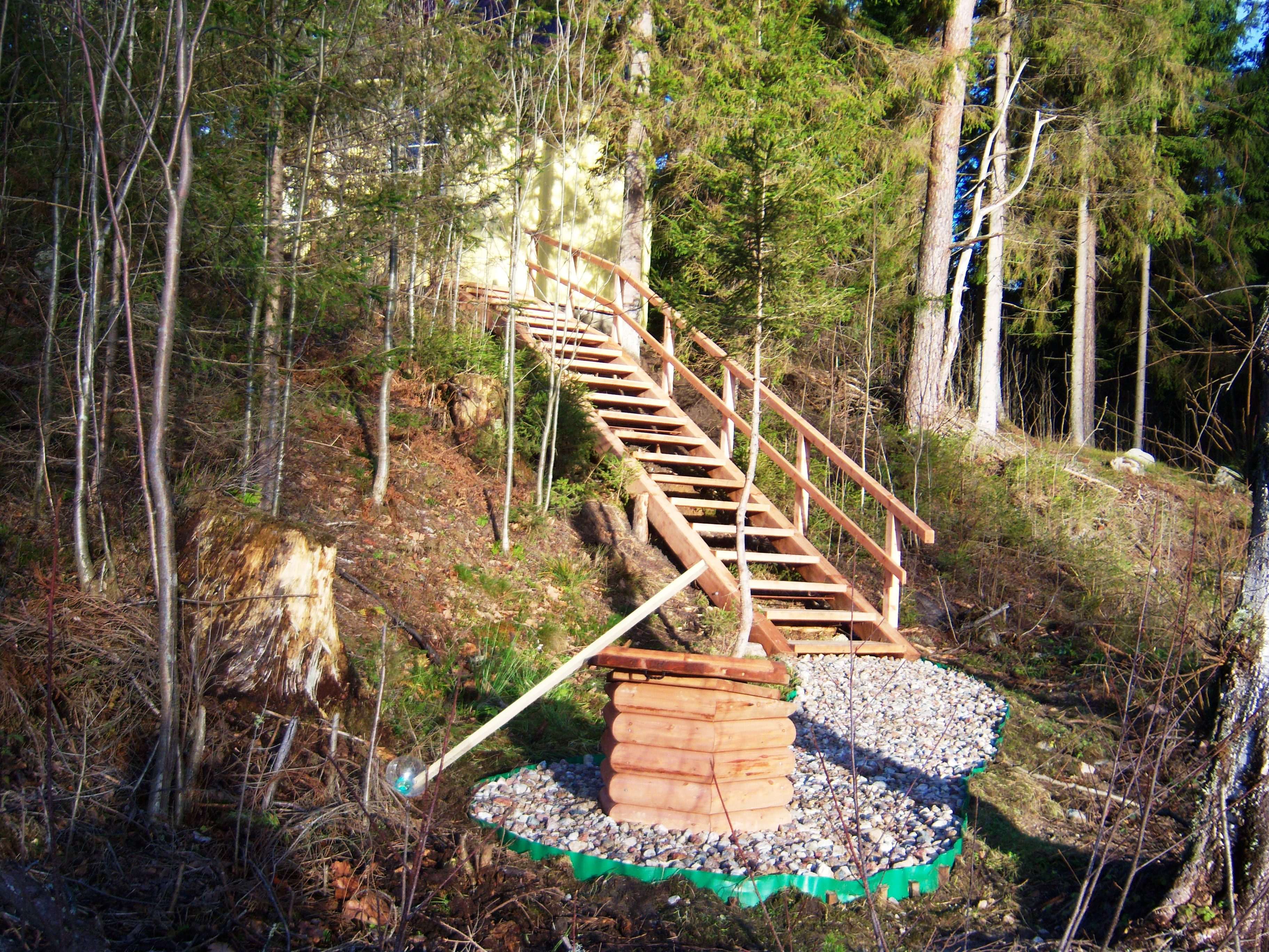 Drungeliškė (Gvaldai) Chapel, Šilalė District, Lithuania